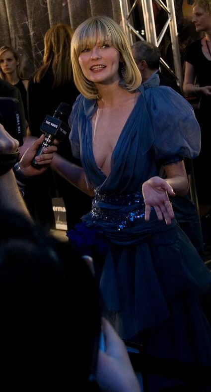 Kirsten Dunst at the Sweden premiere of Spider-Man 3.